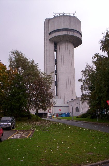 Daresbury Laboratory: nuclear structure research tower Dating from the 1970s, this tower was mothballed in 1993, but is now being used for research into the "fourth generation light source". This follows the Government's decision to site the third generation Diamond Synchrotron facility in Oxfordshire.